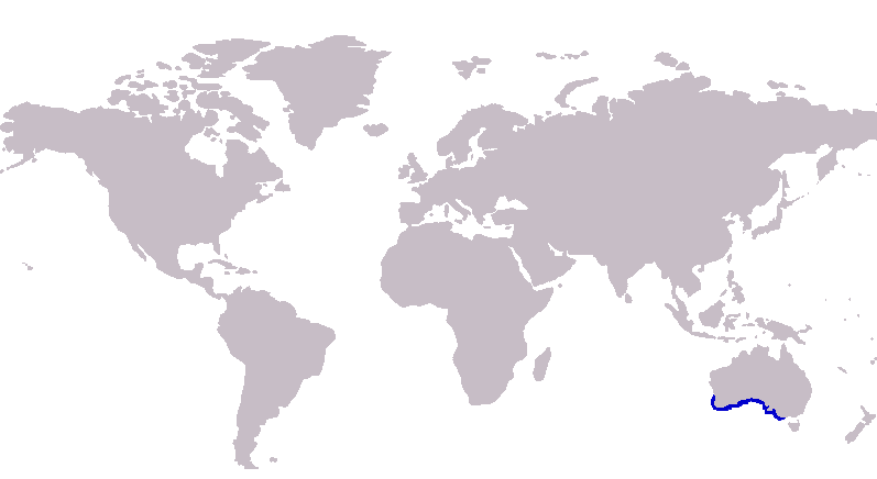 Distribution of the Southern school whiting, Sillago bassensis using map based on GDFL image